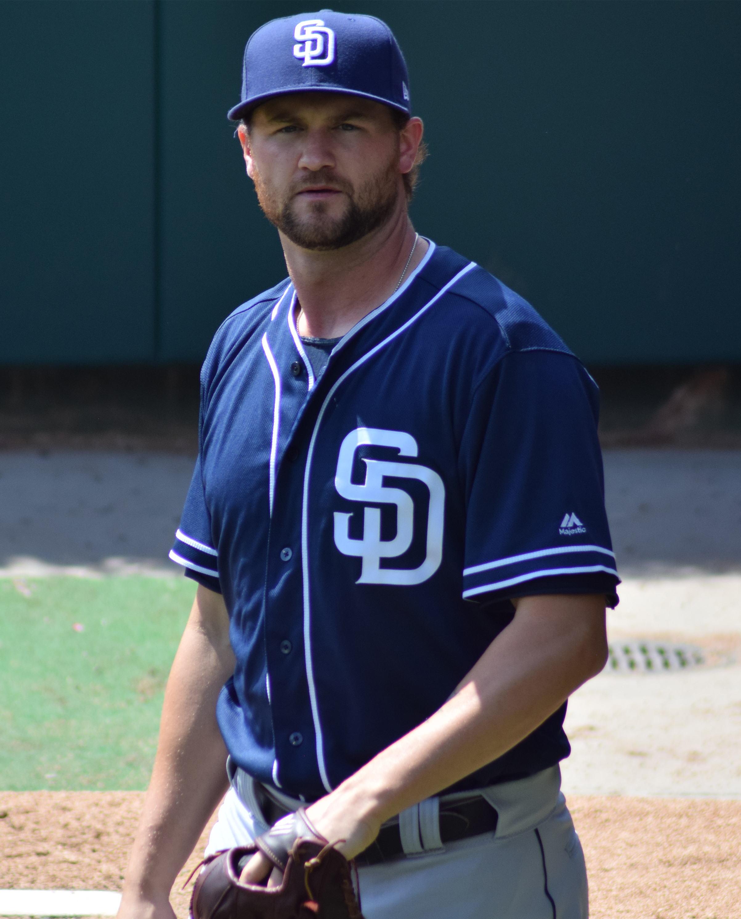 San Diego Padres relief pitcher Colten Brewer